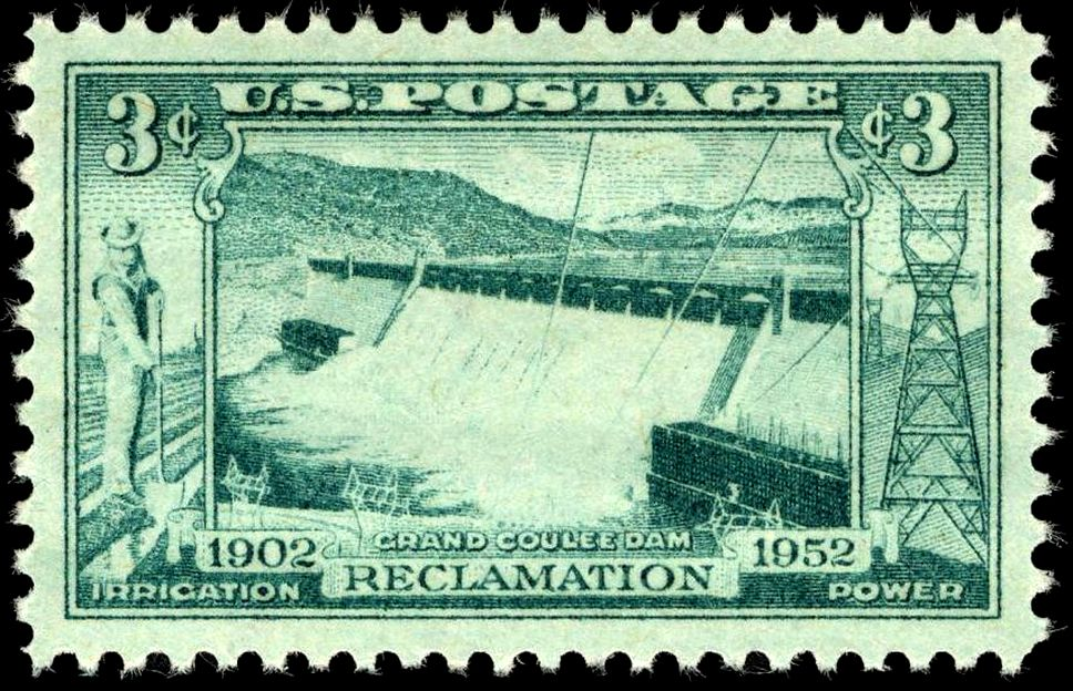 Image of US Postage stamp, 3c, green, depicting Grand Coulee Dam